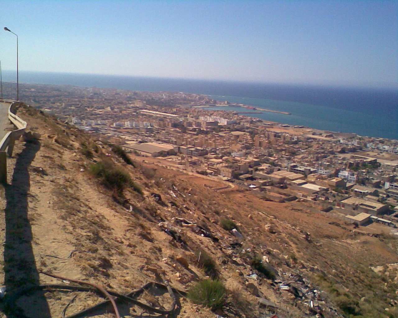 Port the Libyan Town of Derna.